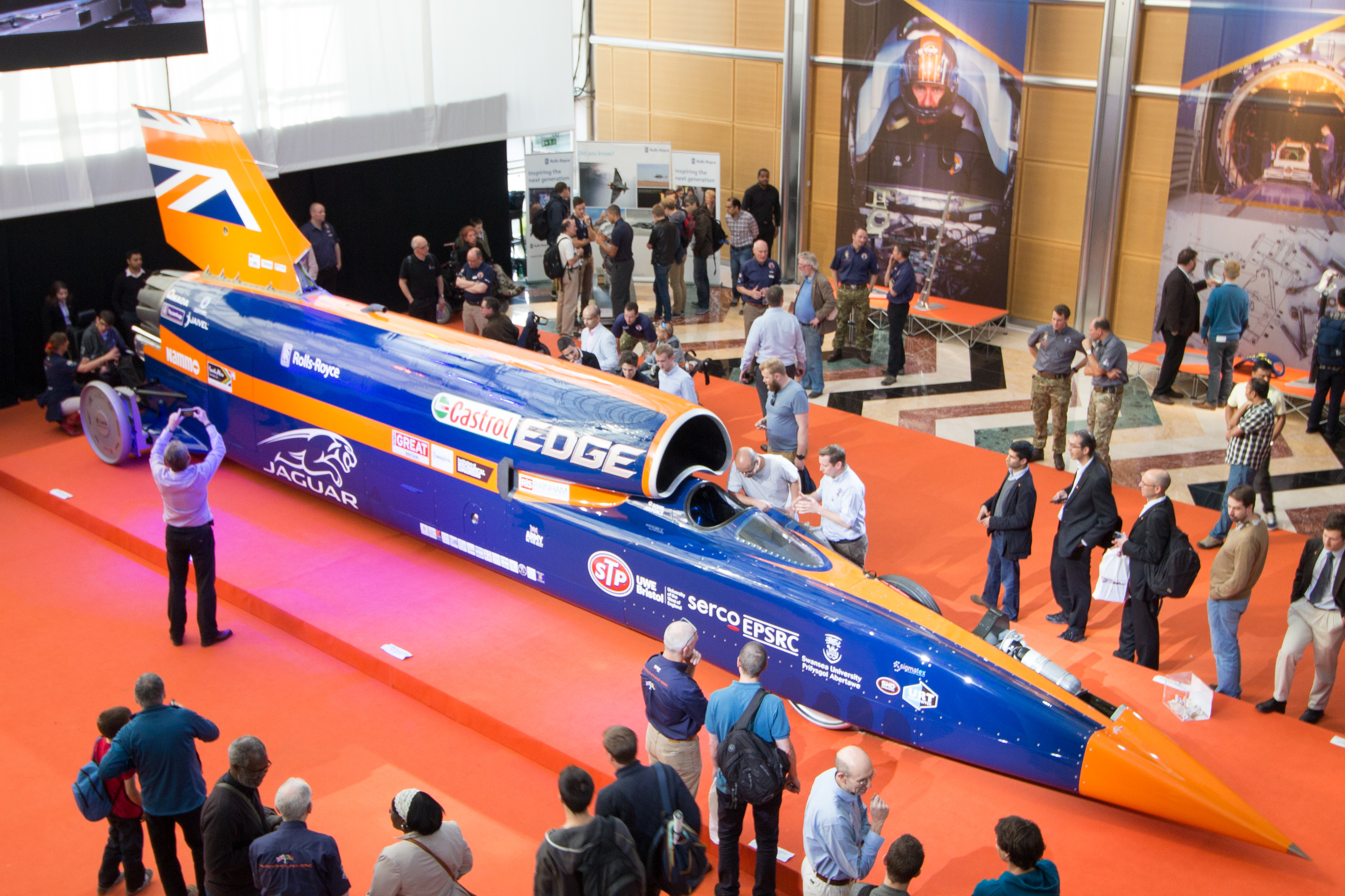 Bloodhound SSC when it was on public display at Canary Wharf, London, in September 2015.